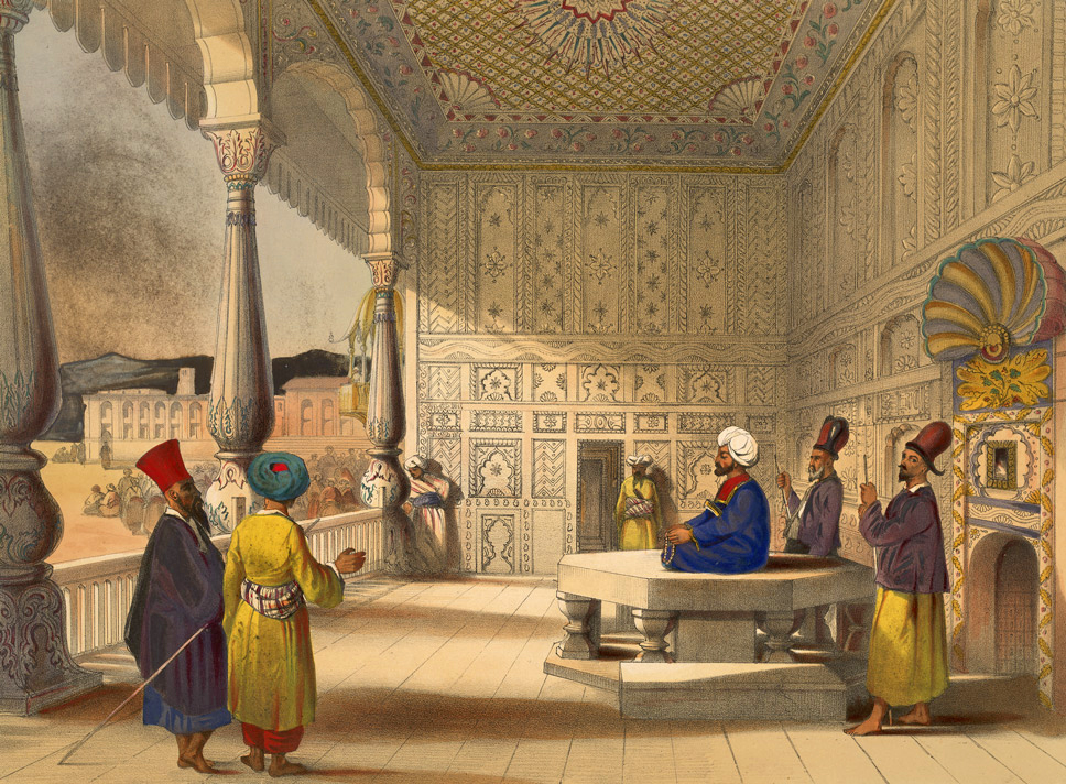 Interior of the palace of Shauh Shujah Ool Moolk, Late King of Cabul This lithograph is taken from plate 3 of 'Afghaunistan' by Lieutenant James Rattray. This scene shows Shah Shuja in 1839 after his enthronement as Emir of Afghanistan in the Bala Hissar (fort) of Kabul. Rattray wrote: "The Shah was a man of great personal beauty, and so well got up, that none could have guessed his age." He continued: "the wild grandeur of the whole pageantry baffles description." The population watched Shuja's grand entry in absolute silence. He was then seated on a white and reputedly ancient marble throne. From here he could be seen by the court in the quadrangle below. The wooden arches and pillars surrounding him were carved and painted and the ceiling richly decorated. A year later the sanctity of the scene was bloodily violated: Shah Shuja was murdered and "the sacred throne, [became] a lounge, a pitch-and-toss table."